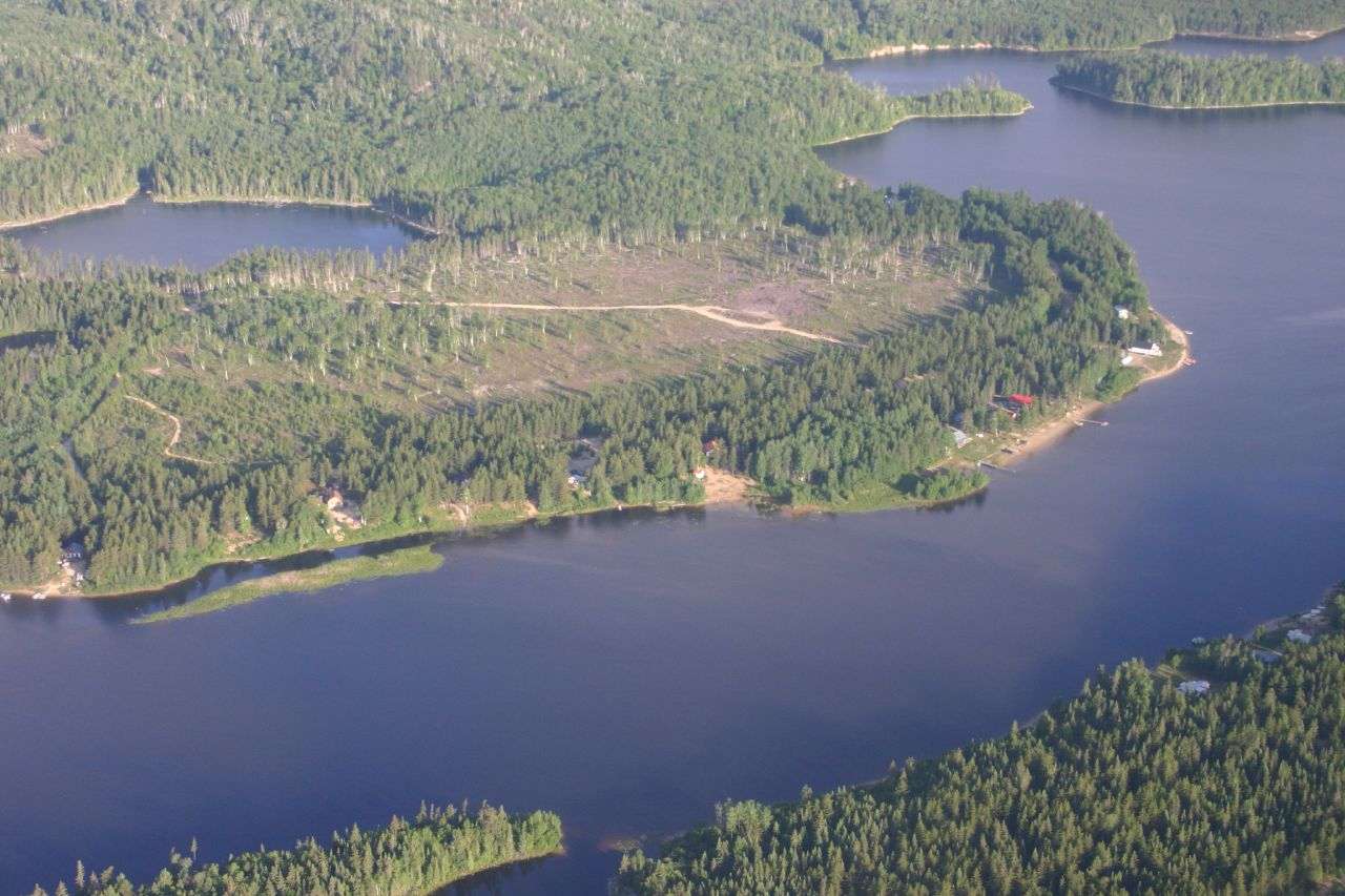 The Magpie River is a river in the Algoma District of northern Ontario, which empties into Michipicoten Bay on Lake Superior near the town of Wawa. The river drains an area of about 1,900 km².